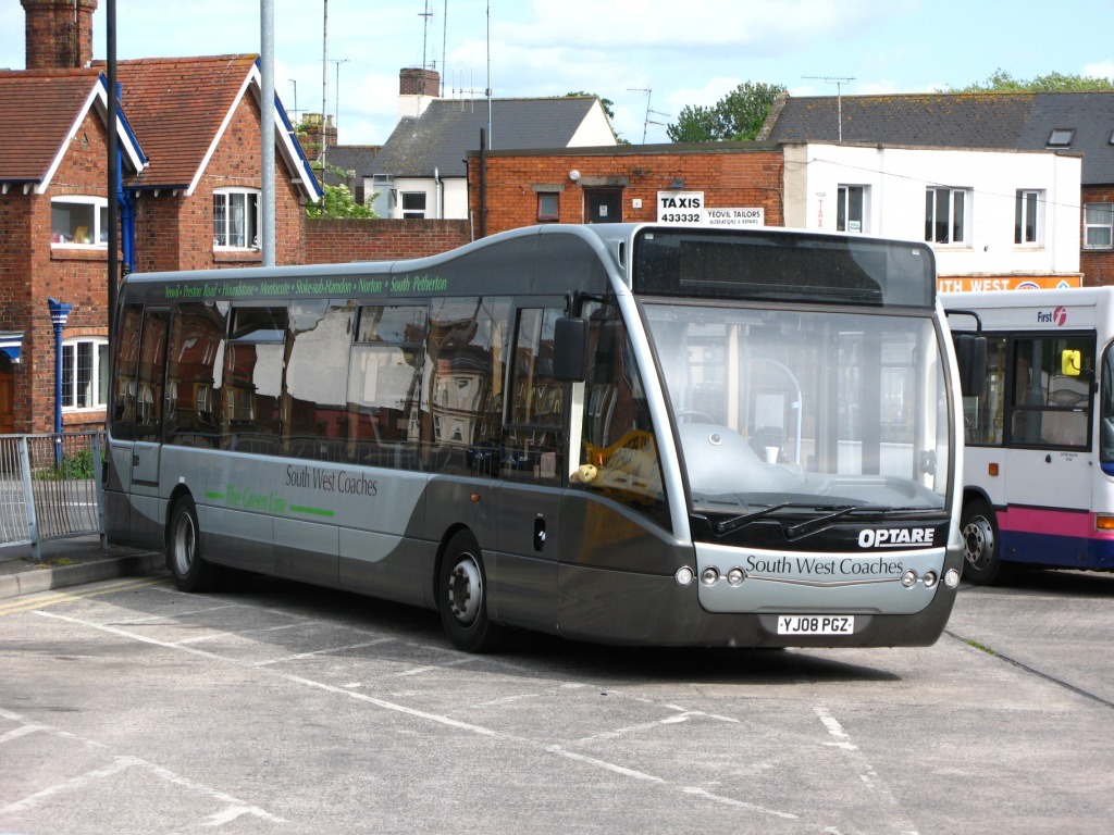 An Optare Versa (registration YJ08PGZ) operated by South West Coaches is seen at Yeovil Bus Station in Somerset.